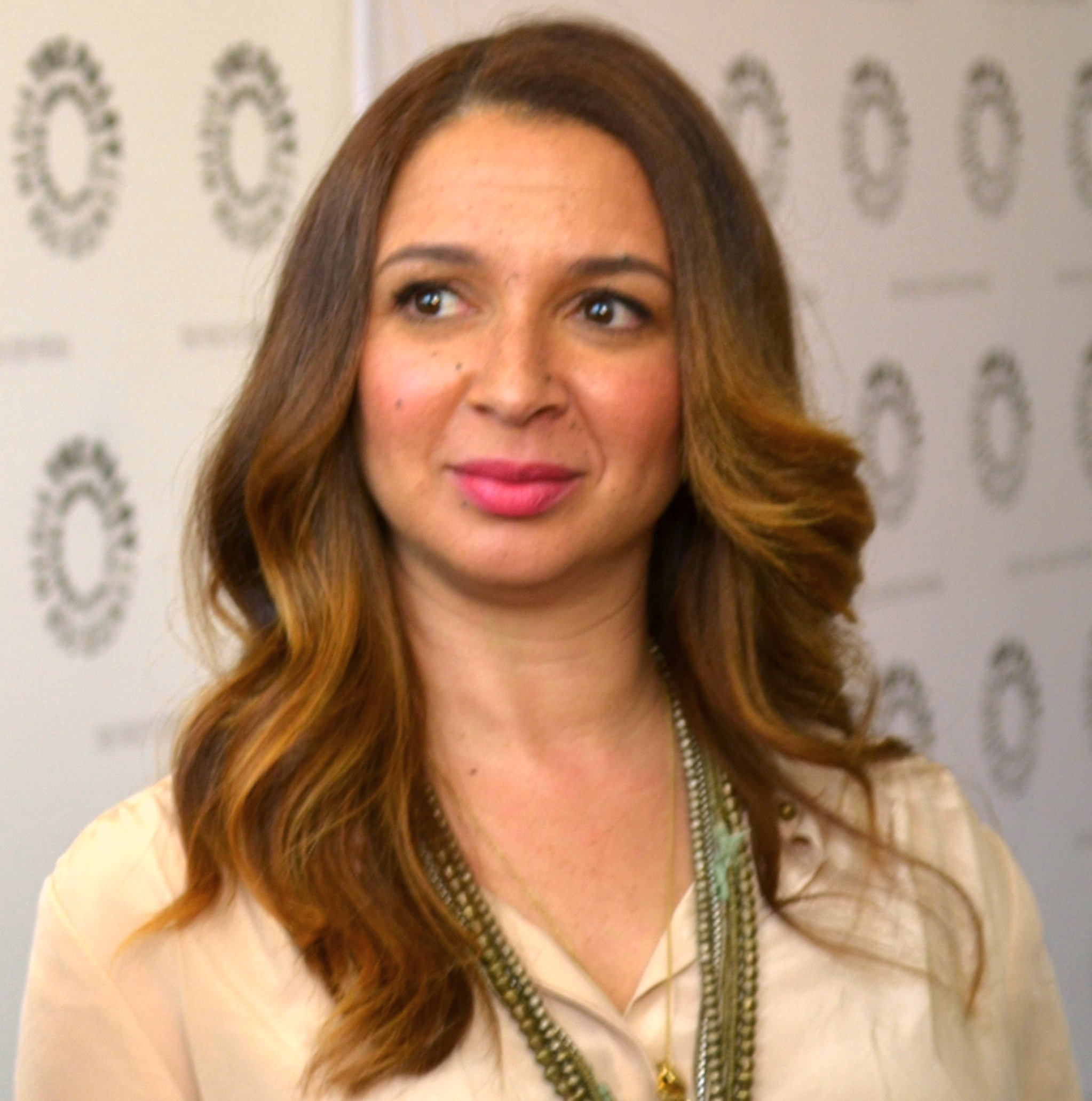 Maya Rudolph at the "Up All Night" Cast at Paley Center 2012.